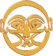 Old Alevi-Bektashi calligraphy by an unknown author.